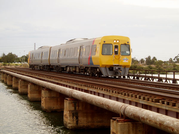 Author: Ian Threlfall Location: Old Port Reach, Port Adelaide, South Australia. Subject: TransAdelaide railcars 3121/3122 at Old Port Reach Bridge. 13 April 2005 15.17 Outer Harbor to Adelaide train.